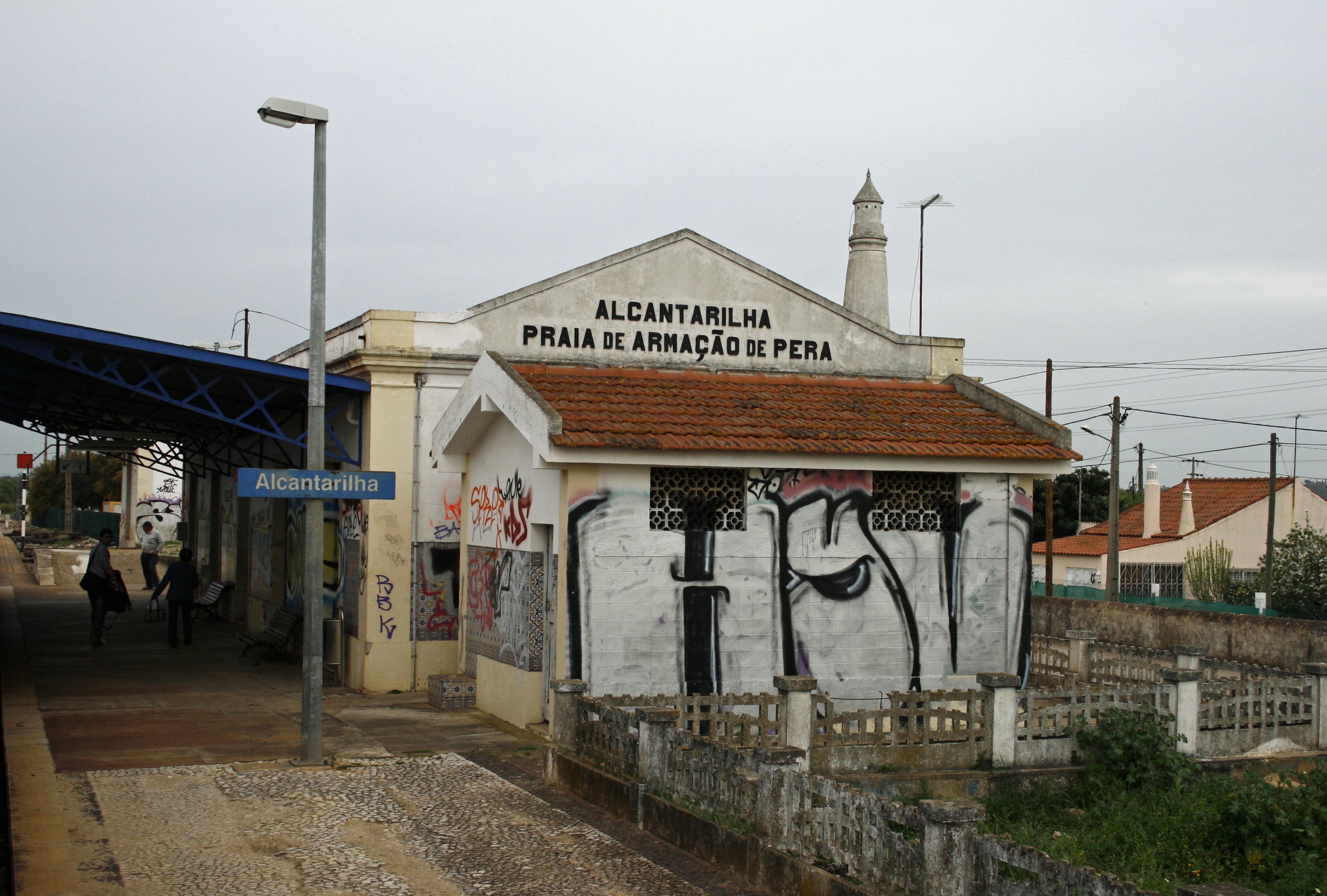 Alcantarilha - Praia de Armação de Pêra Halt, in the Algarve Line, Portugal.